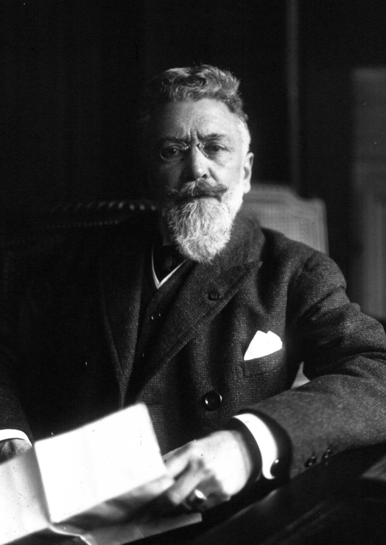 António Maria de Bettencourt Rodrigues (1854-1933), Portuguese minister plenipotentiary in Paris